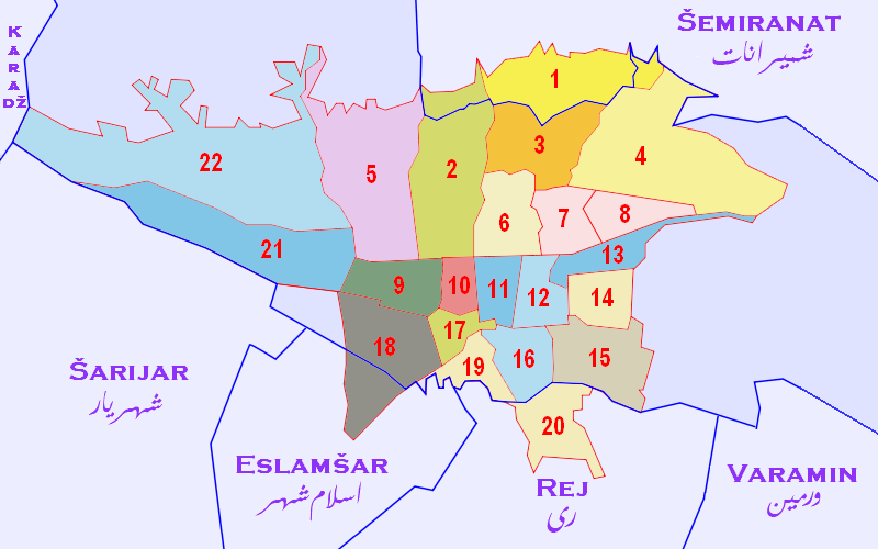 Tehran municipality (Croatian description)